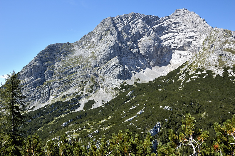 Hochtor from Hochzinödl